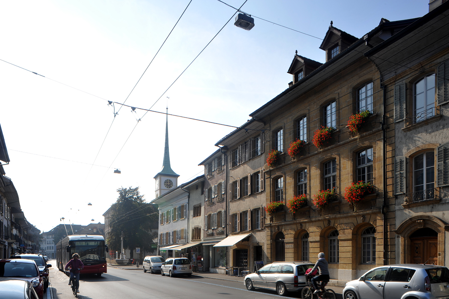 Main street in Nidau; Berne, Switzerland.